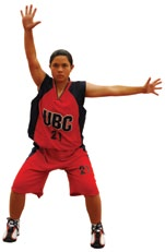 basketball